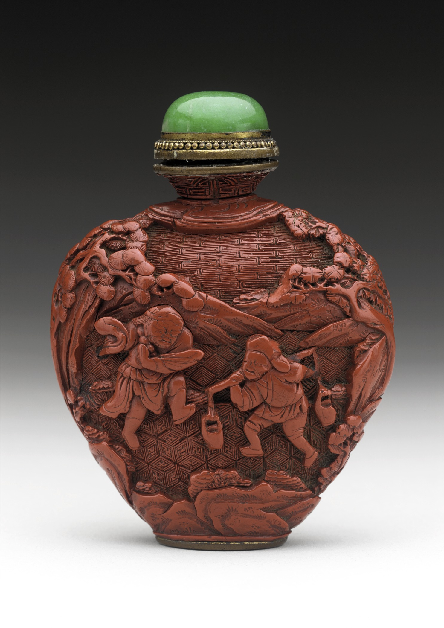 China, middle Qing dynasty, about 1700-1800 Tools and Equipment; bottles Carved red lacquer on metal core, with hardstone stopper Overall: 3 1/8 x 2 1/4 x 1 1/8 in. (7.94 x 5.72 x 2.86 cm); .a) Cover: 2 3/8 x 7/8 in. (6.03 x 2.22 cm); .b) Bottle: 2 5/8 x 2 1/4 x 1 1/8 in. (6.67 x 5.72 x 2.86 cm) Mr. and Mrs. Allan C. Balch Collection (M.45.3.319a-b) Chinese Art